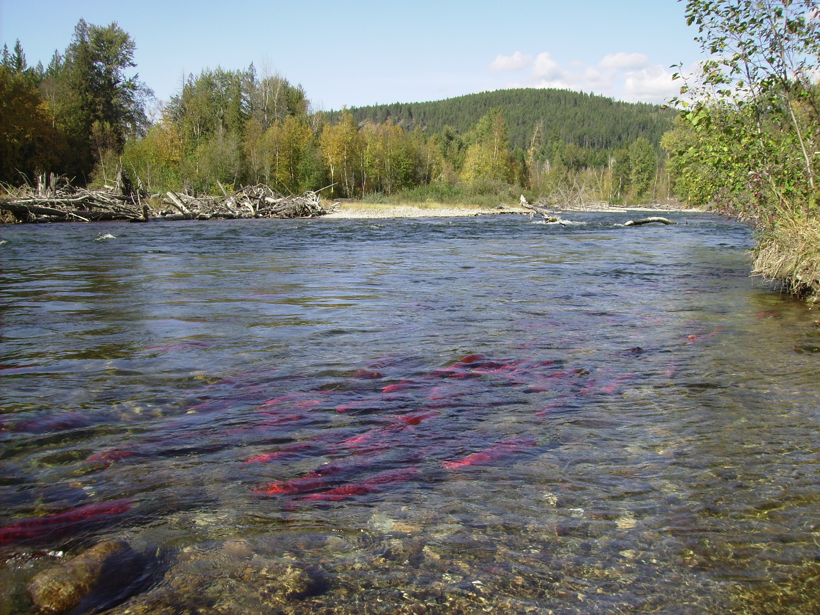 Looking north up the Lower Adams River, approx. 2km from mouth at Shuswap Lake